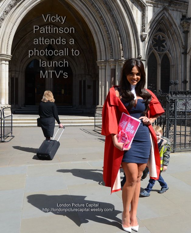 Television personality Vicky Pattison attending a photocall for MTV show Judge Geordie on May 13, 2015.